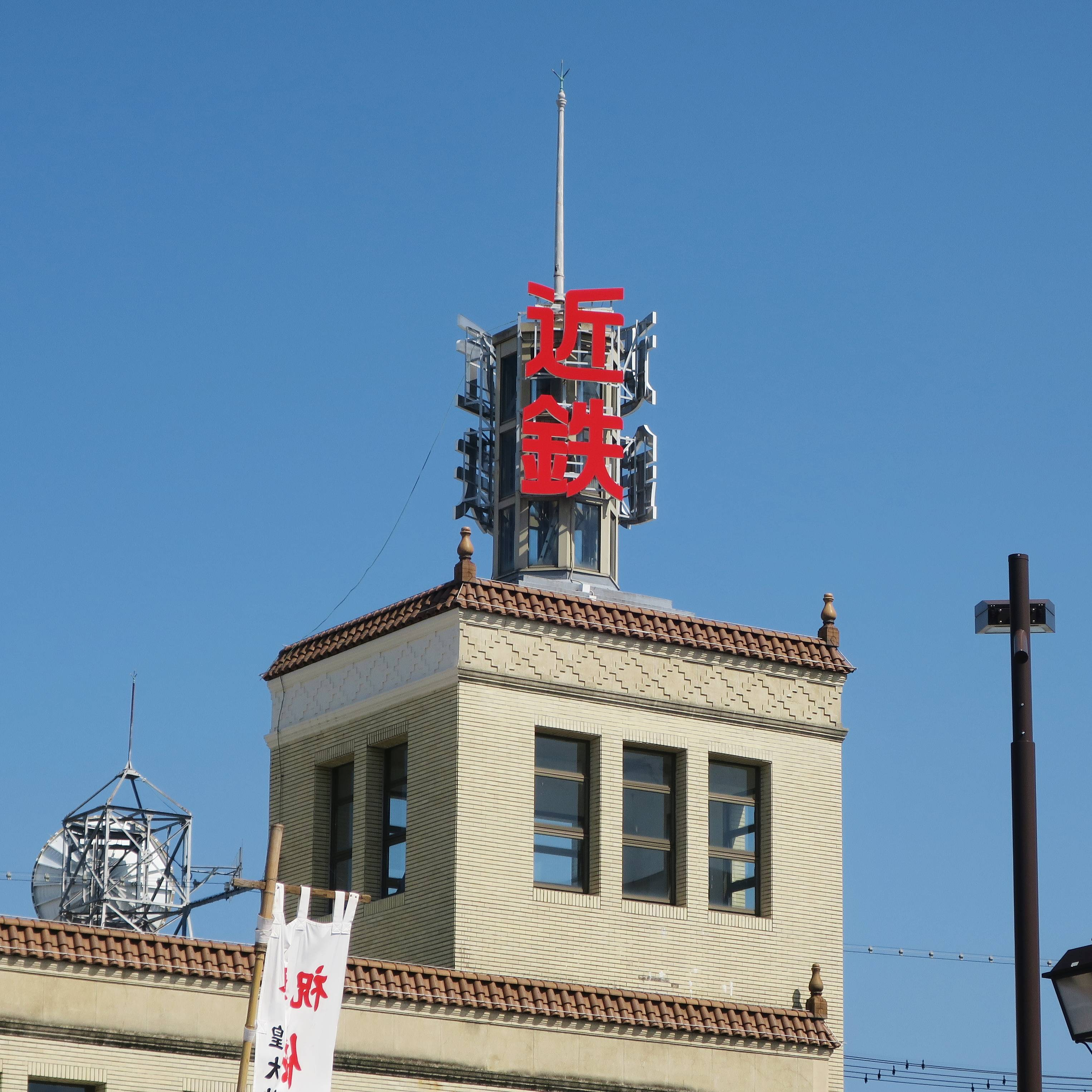 Ujiyamada Station.